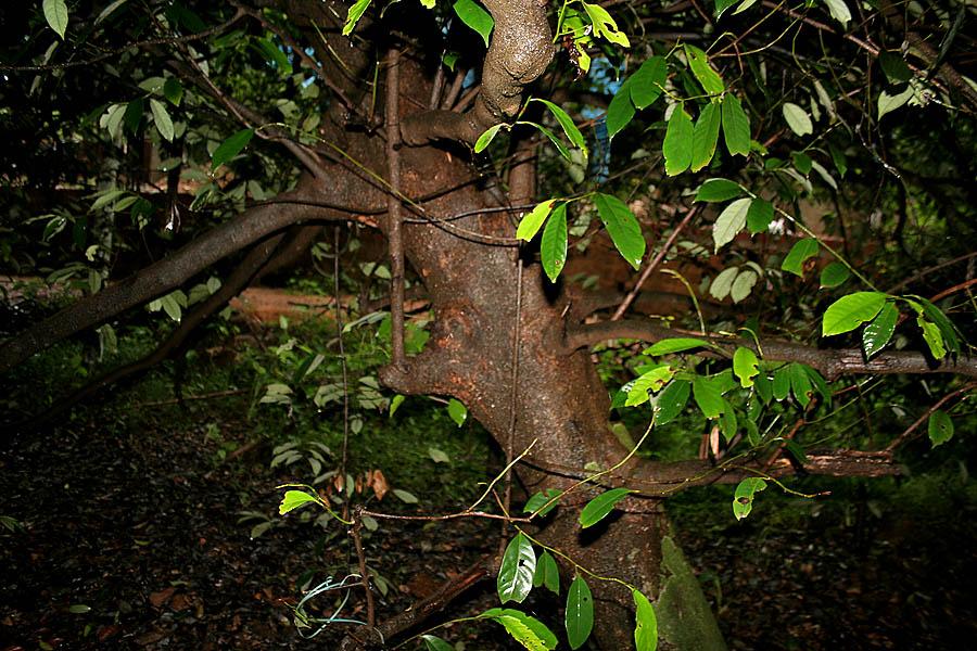 Myristica fragrans- Jaiphal, Nutmeg, Mace, Javatri, Rama-patre- in Goa, India.